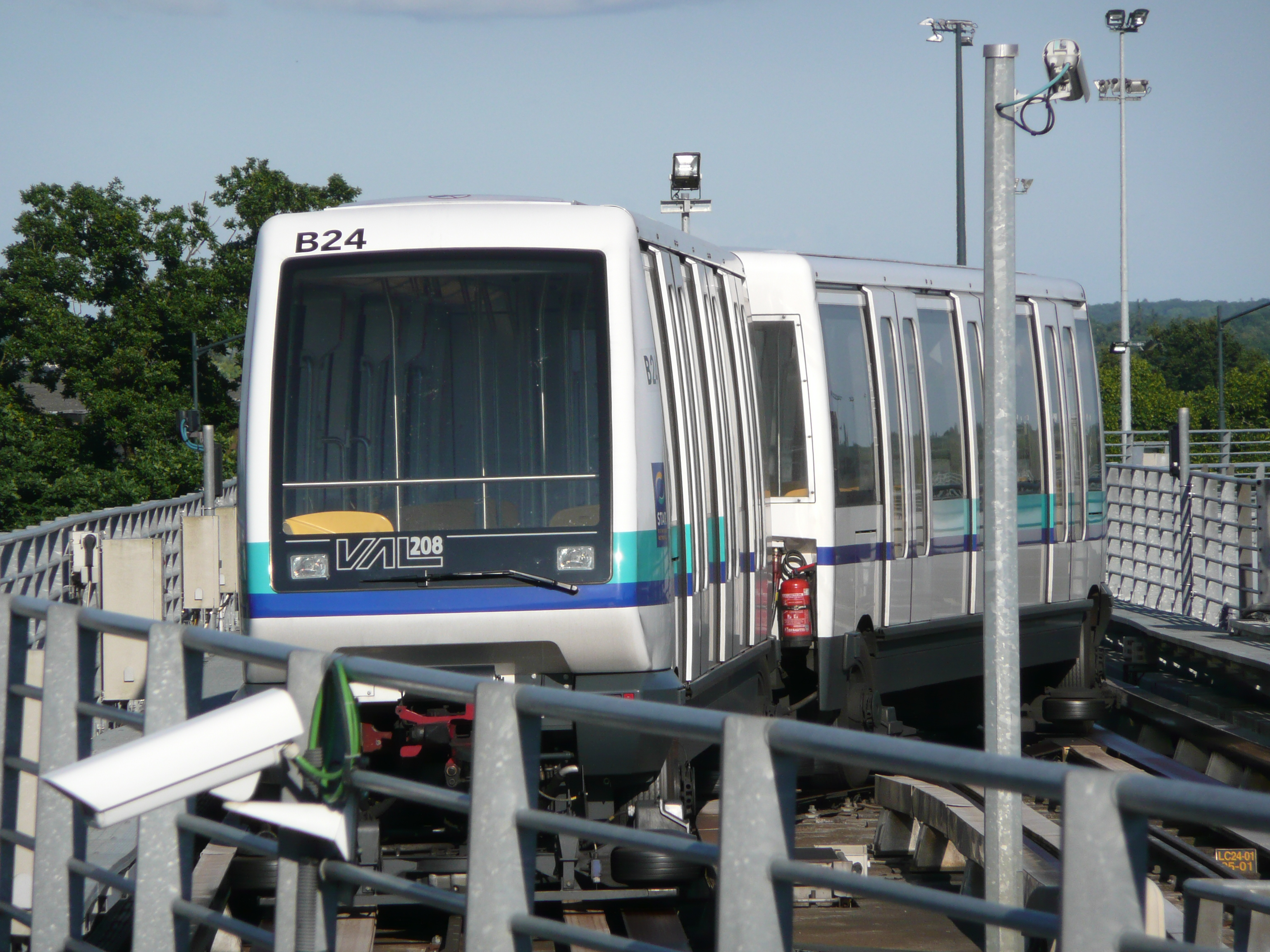 Rennes metro (France) : train type Val208 at the terminus of La Poterie